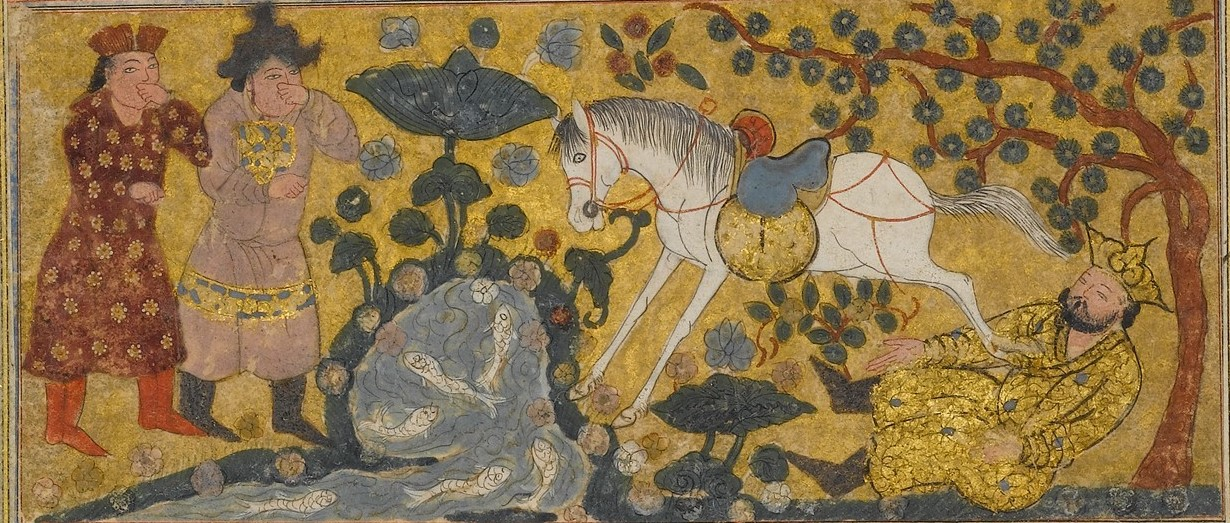 Folio from an illustrated manuscript; Codices